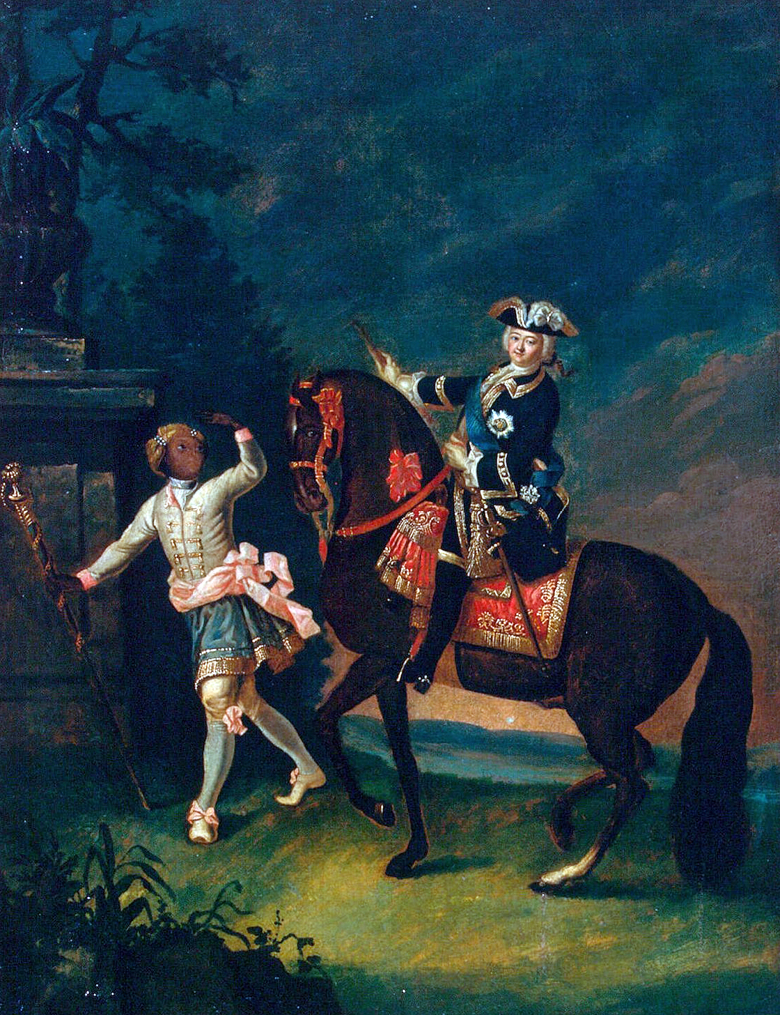 Equestrian portrait of Empress Elisabeth of Russia with a little арап (black servant)